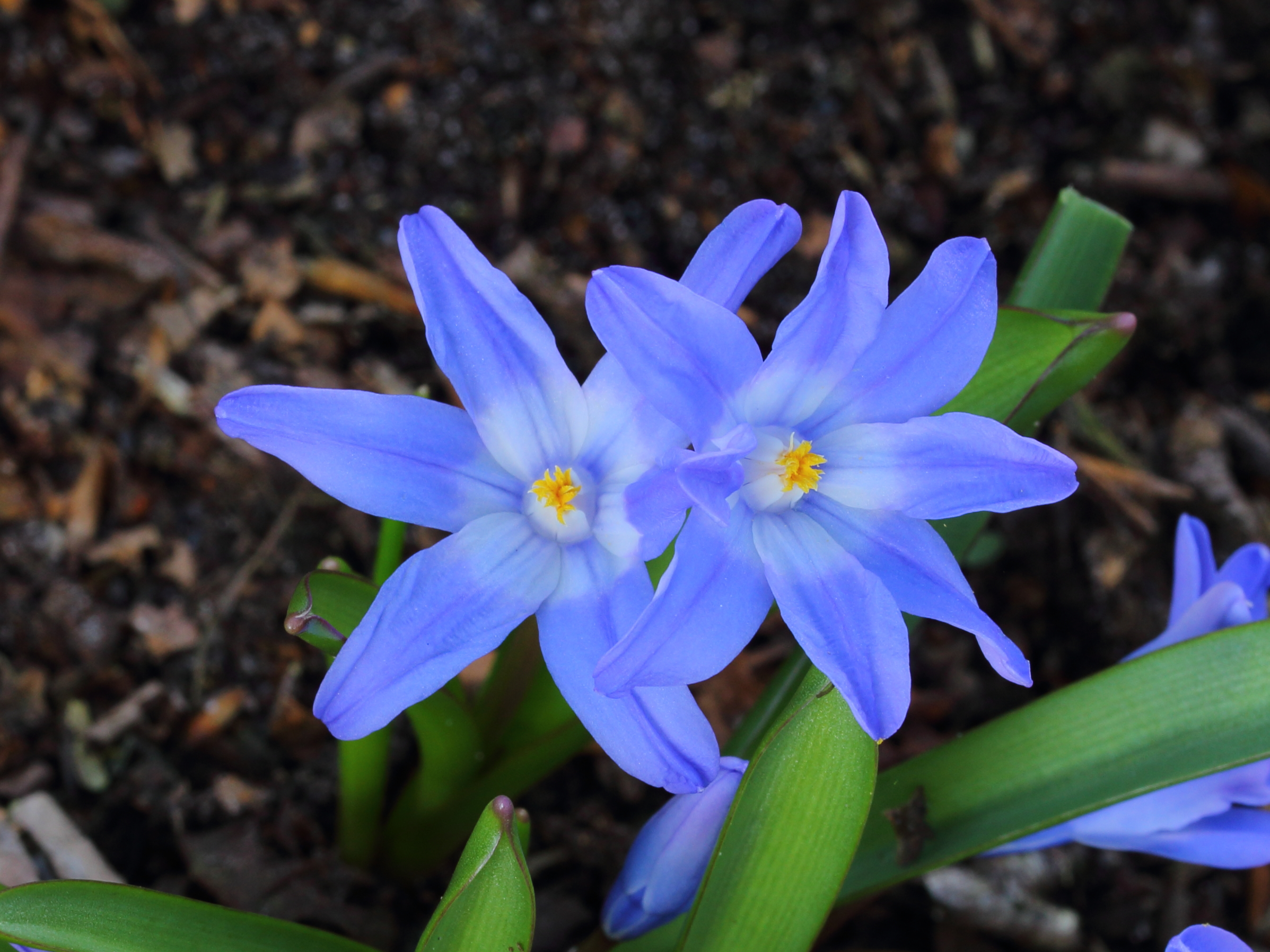 Chionodoxa. Cheerful spring flowering bulb.